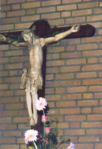 Piet-Heynskruis 1986